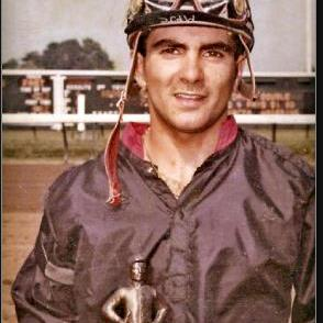 Jockey Tony Vega No.1 in the U.S. for wins & No.2 in the U.S. for earnings by an Apprentice